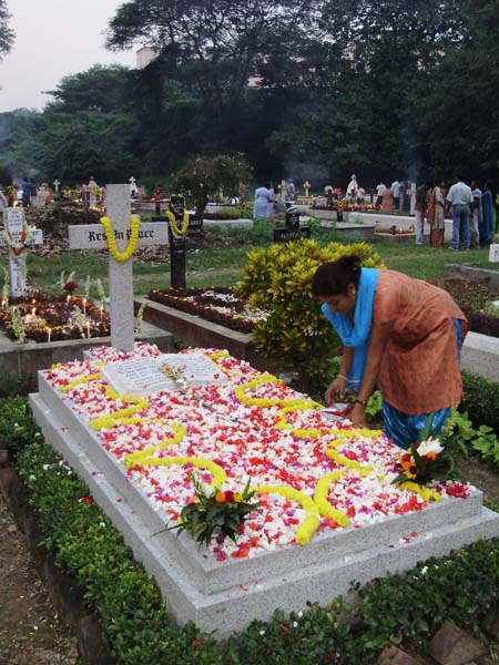 All souls' Day, Bhawanuipur Cemetery, Kolkata